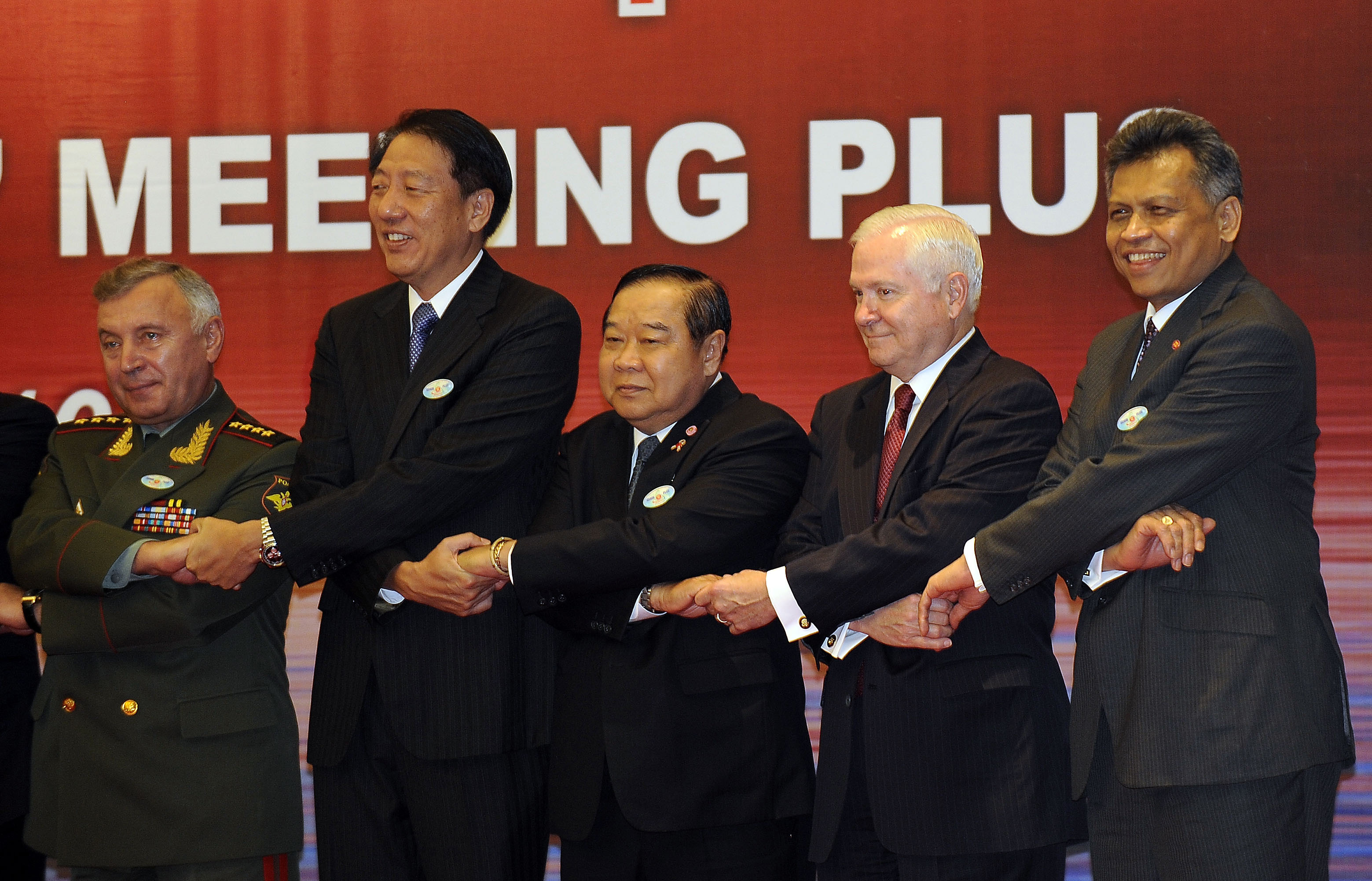 Defense Ministers pose for a photo before their meeting at the first Association of Southeast Asian Nations Defense Ministers Meeting Plus at the National Convention Center in Hanoi on October 12, 2010. Present for this event are Russian Deputy Defense Minister and Chief of Staff Gen. Nikolai Makarov (left), Singaporean Defense Minister Teo Chee Hean, Thailand's Defense Minister Prawit Wongsuwon, Secretary of Defense Robert M. Gates and Secretary General Surin Pitsawan (right).